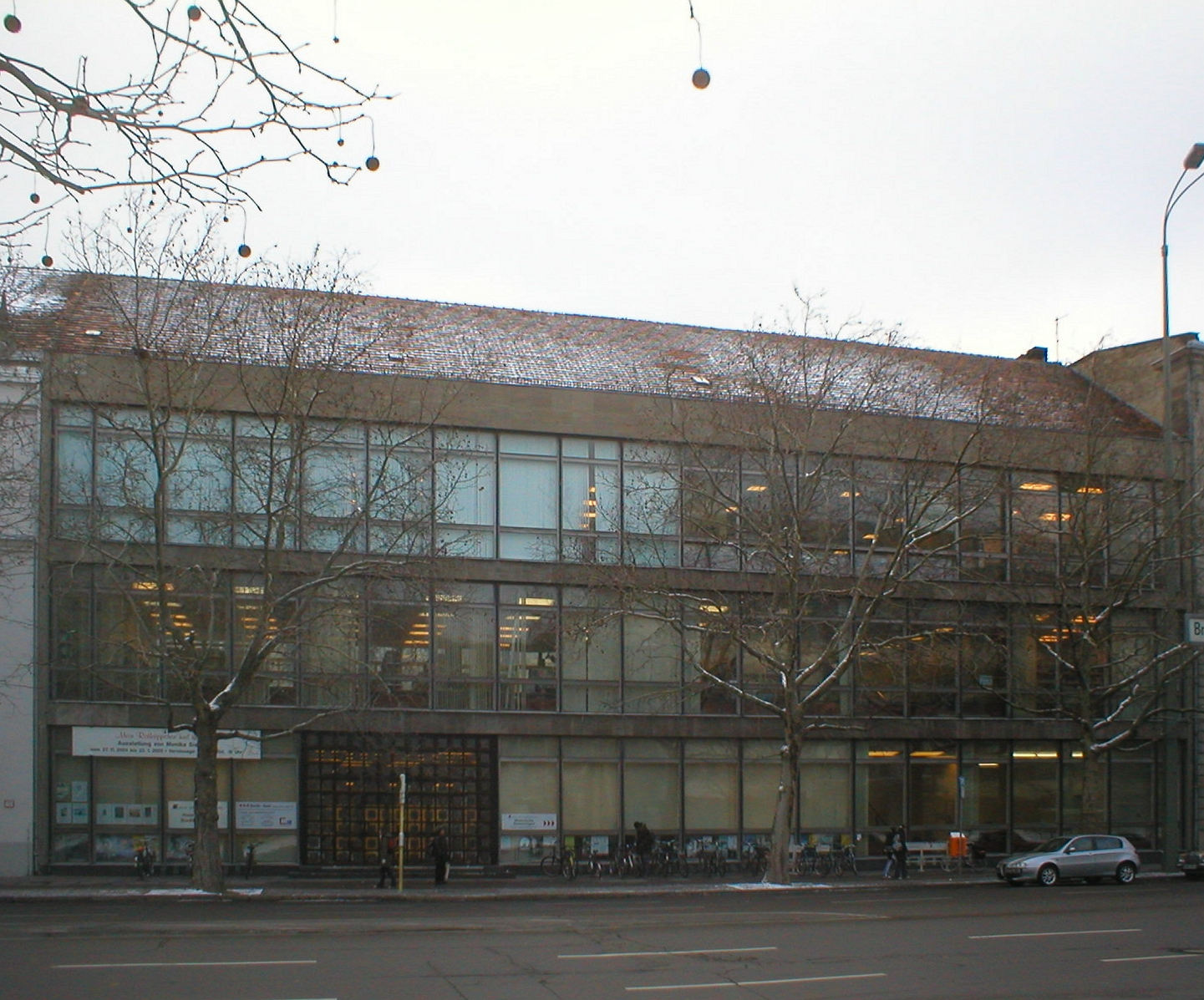 Berliner Stadtbibliothek in der Breiten Straße, Berlin